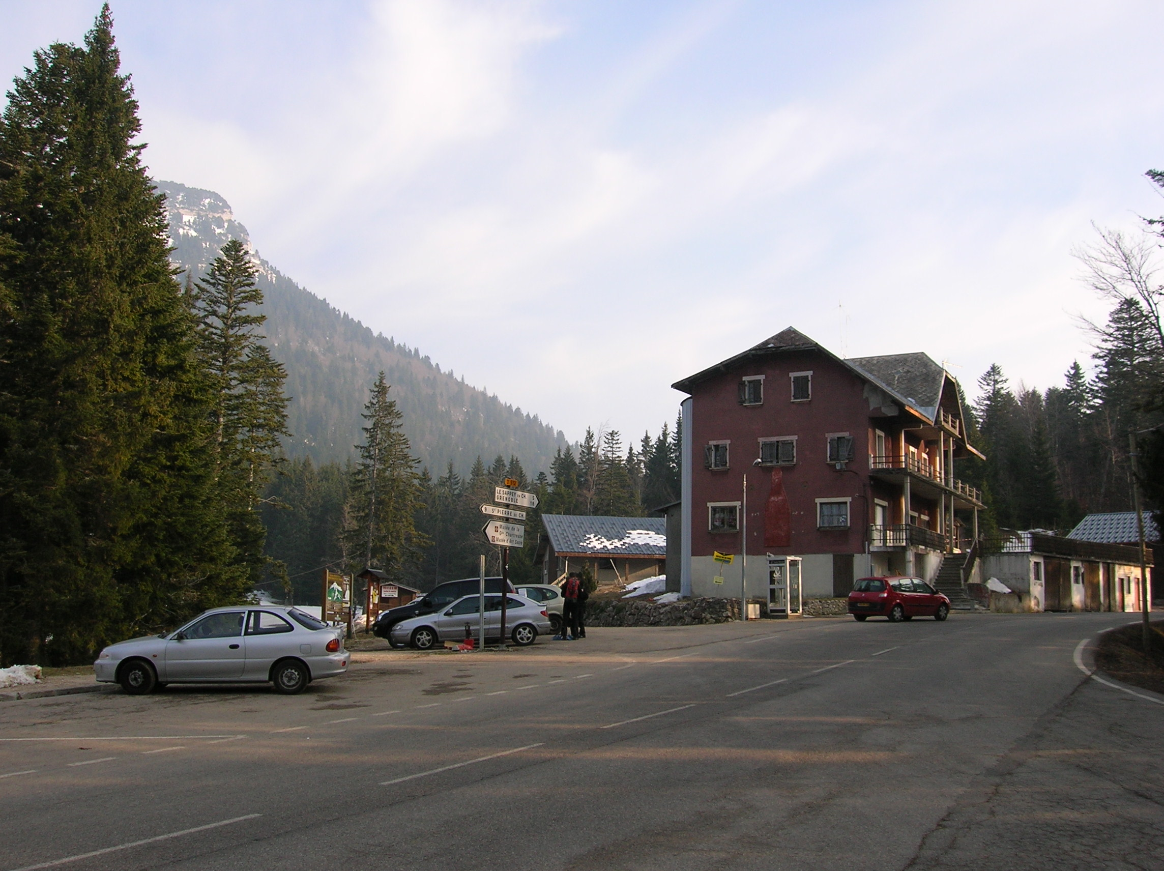 my own photograph